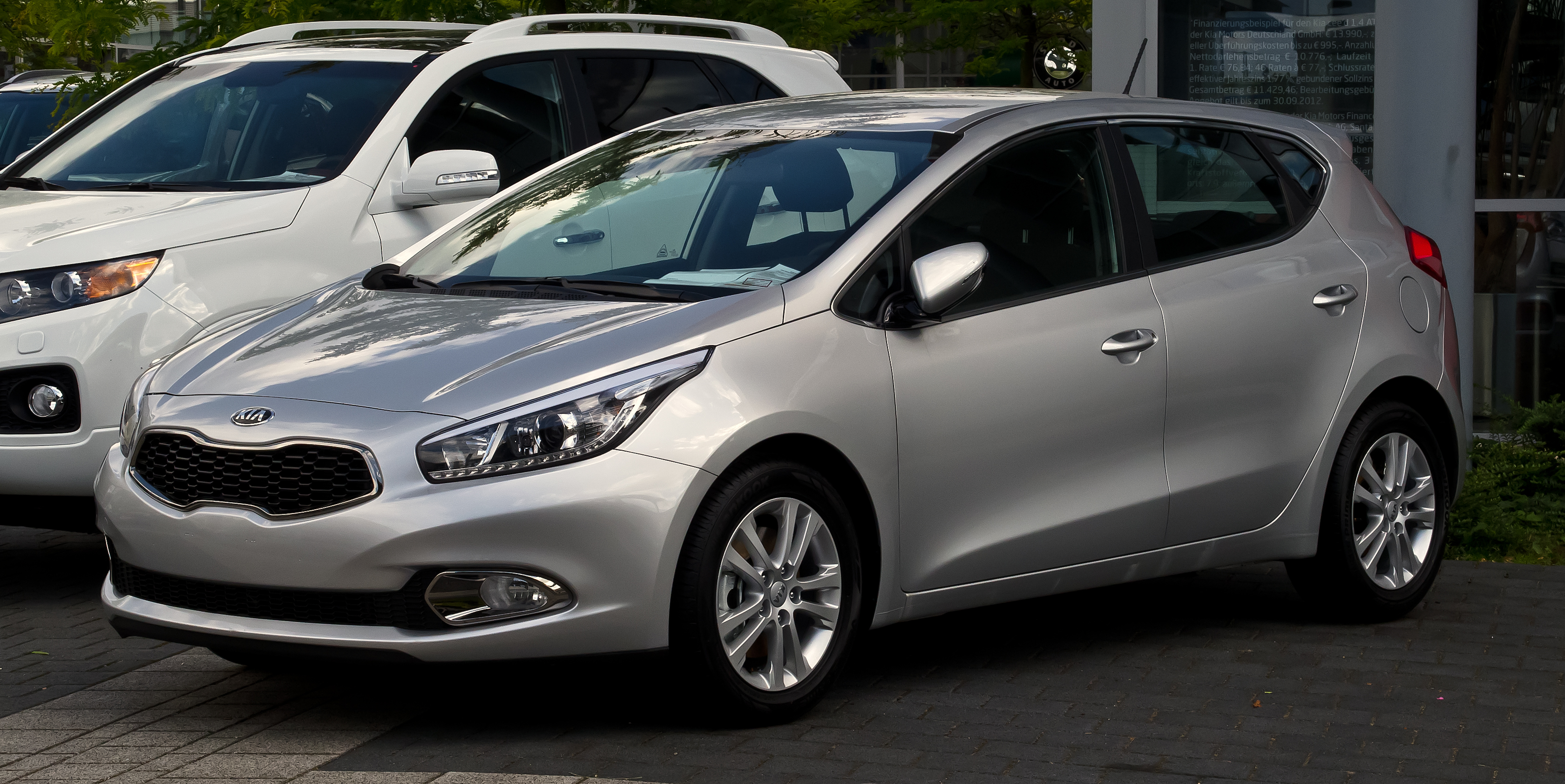 Kia cee'd 1.6 CRDi 128 Vision (EU)